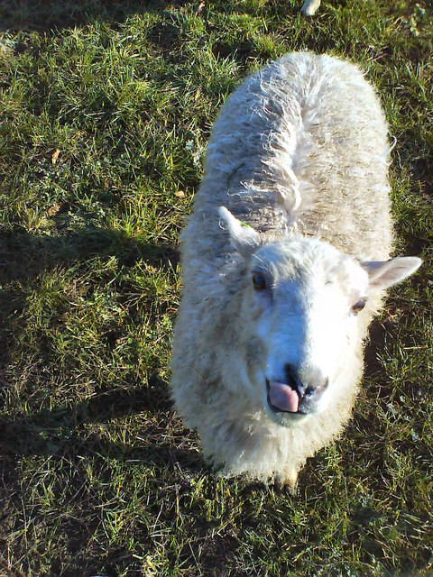 Shetland Sheep in Keysoe Young male Shetland sheep born 1st May 2006 grazing in Keysoe